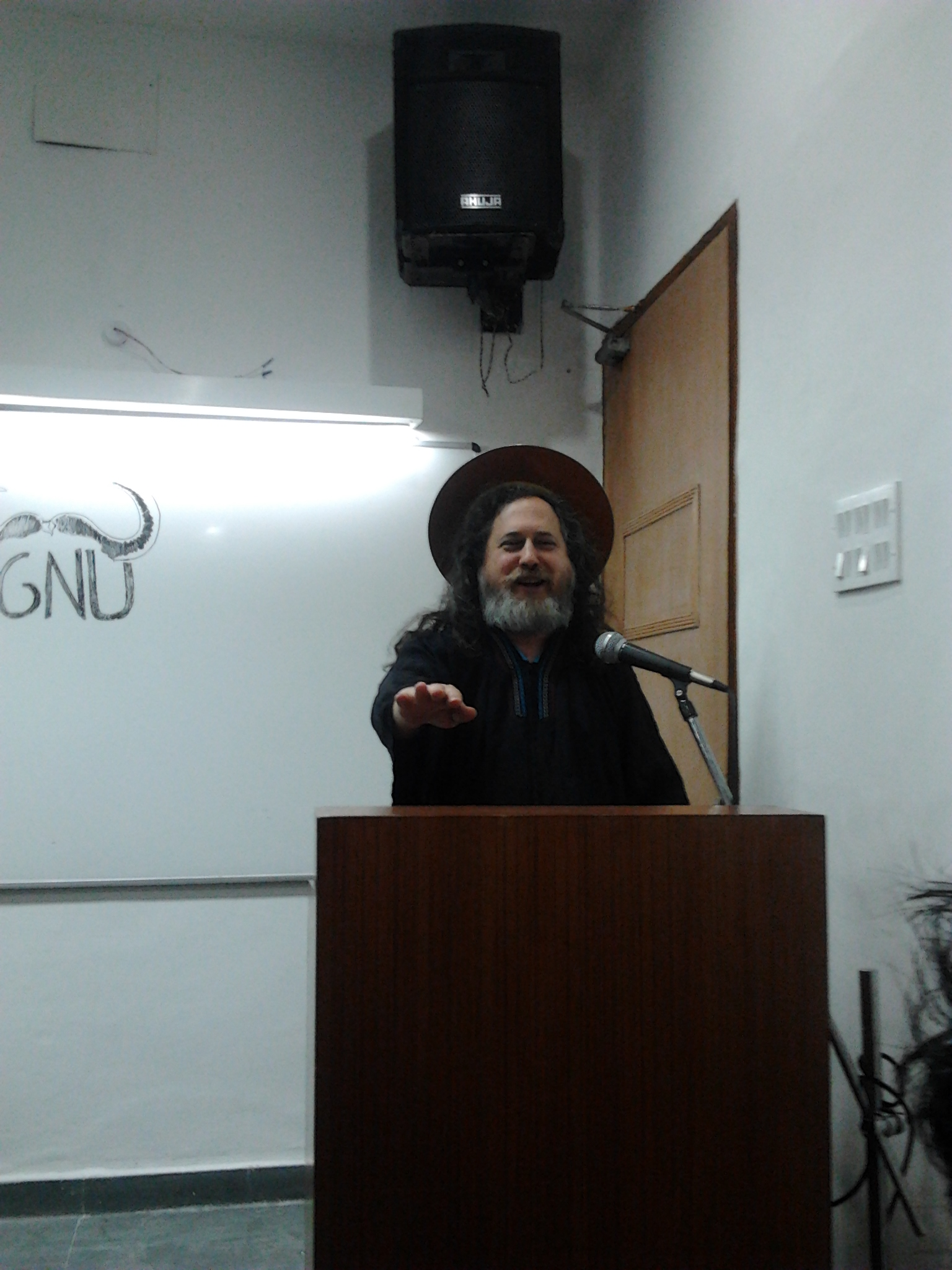 Richard Stallman's talk at Acharya Narendra Dev College ,New Delhi, on februaby 1, 2012 at 11:30 AM.